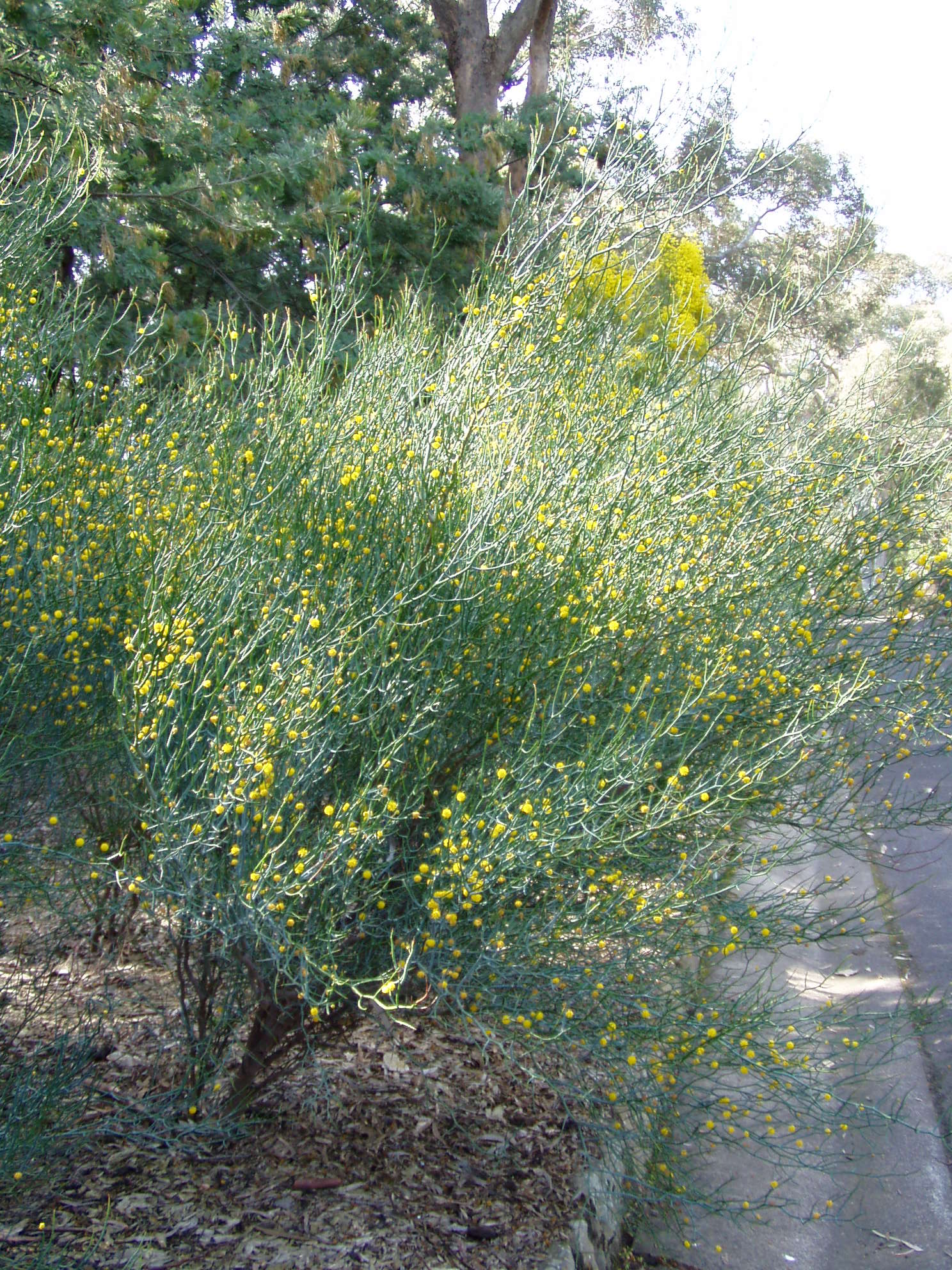 Description: Leafless Rock Wattle (Acacia aphylla) Location: Australian National Botanic Gardens, Canberra, Australian Capital Territory, Australia Date: 2005-09-21 Source: picture taken by Danielle Langlois Licence: Released under GFDL and Creative Commons licenses by the photographer